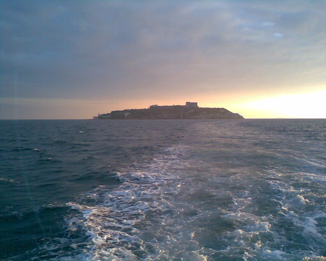 Landscape of Yassiada -Turkey